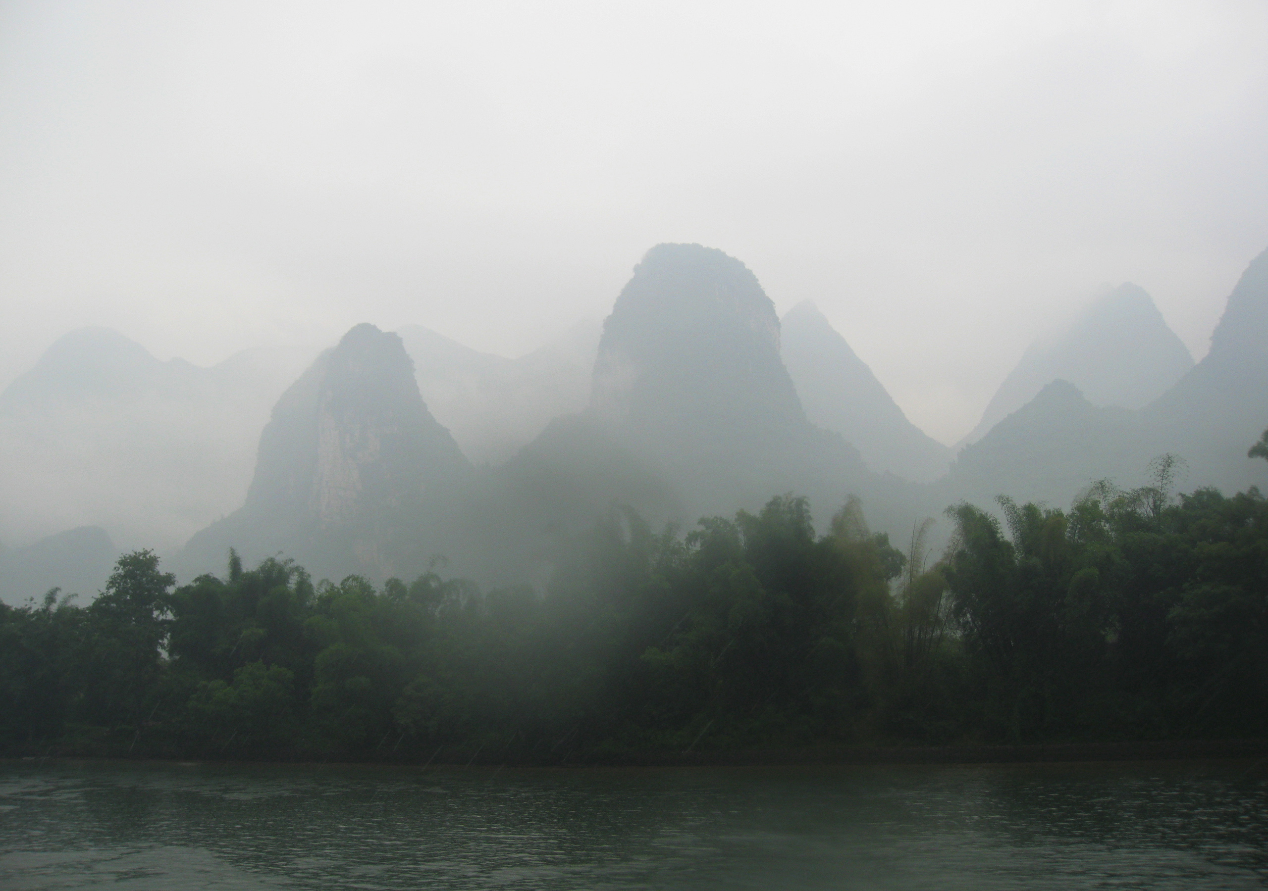 Steep hills in mist, past bamboo on bank, Li River near Guilin, China.